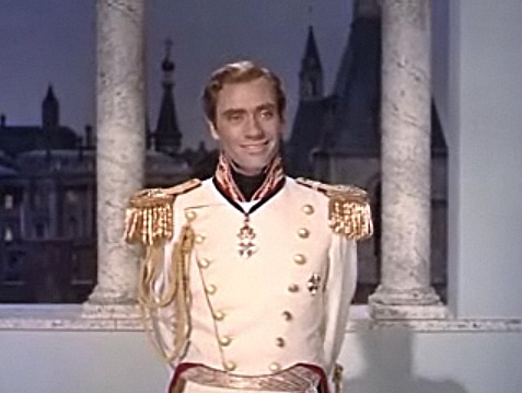 Cropped screenshot of Mel Ferrer from the trailer for the film War and Peace.